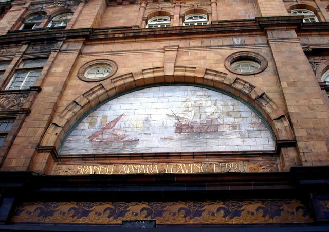 Palace Theatre, Union Street , Plymouth